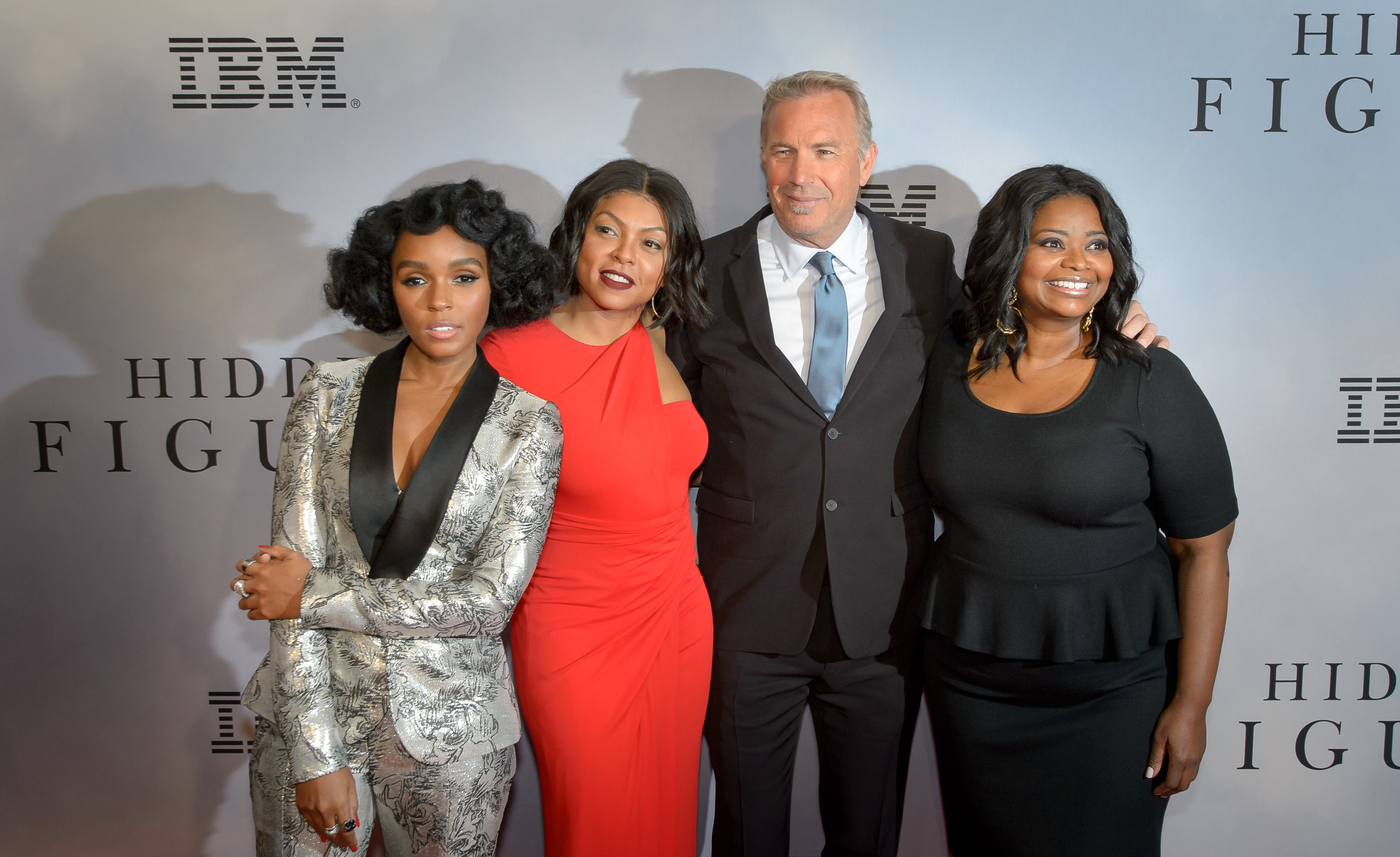 American musical recording artist, actress, and model Janelle Monáe, left, American actress and singer Taraji P. Henson, American actor, film director, and producer Kevin Costner, and American actress Octavia Spencer arrive on the red carpet for the global celebration of the film "Hidden Figures" at the SVA Theatre, Saturday, Dec. 10, 2016 in New York. The film is based on the book of the same title, by Margot Lee Shetterly, and chronicles the lives of Katherine Johnson, Dorothy Vaughan and Mary Jackson -- African-American women working at NASA as “human computers,” who were critical to the success of John Glenn’s Friendship 7 mission in 1962.